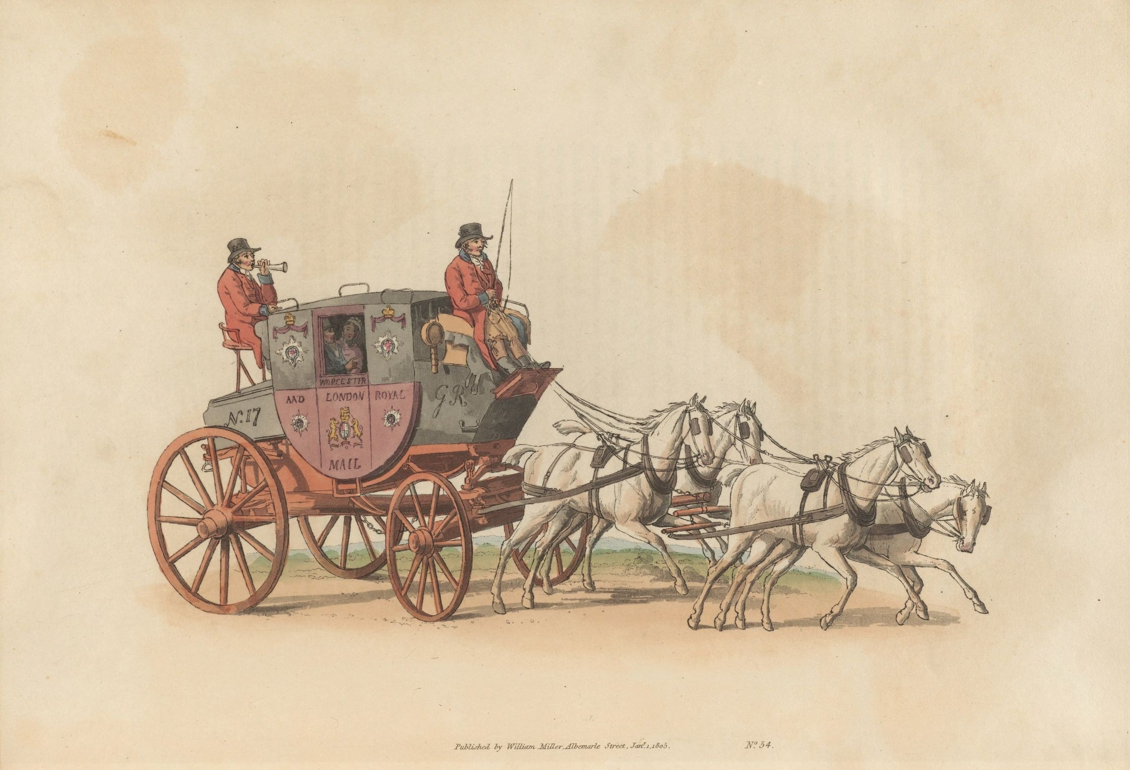 Illustration depicting a Royal Mail stagecoach from The Costume of Great Britain, 1808 (originally issued 1804), written and engraved by William Henry Pyne (1769-1843). *44W-1384, Houghton Library, Harvard University